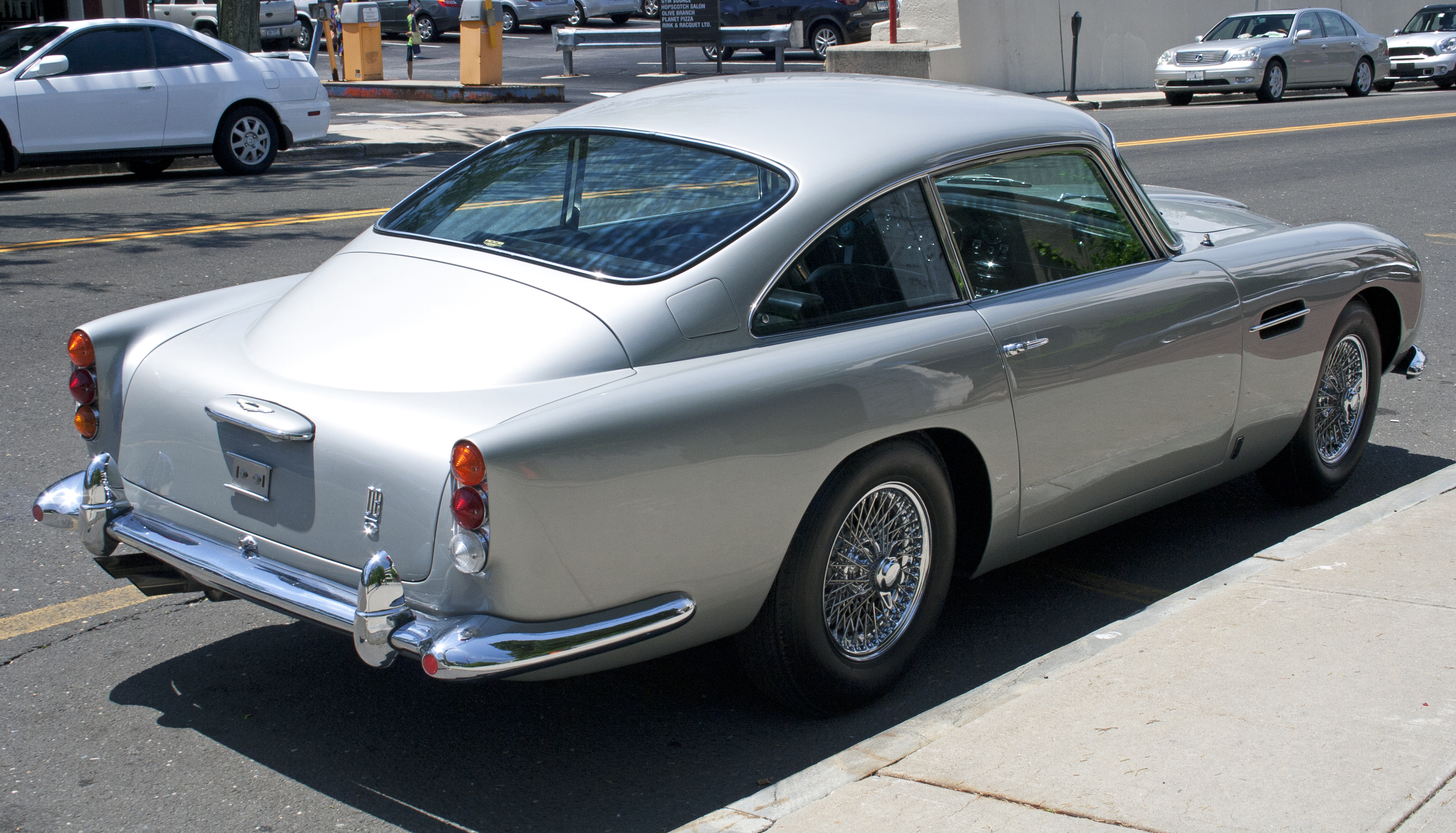 Aston Martin DB5, in Greenwich, CT.